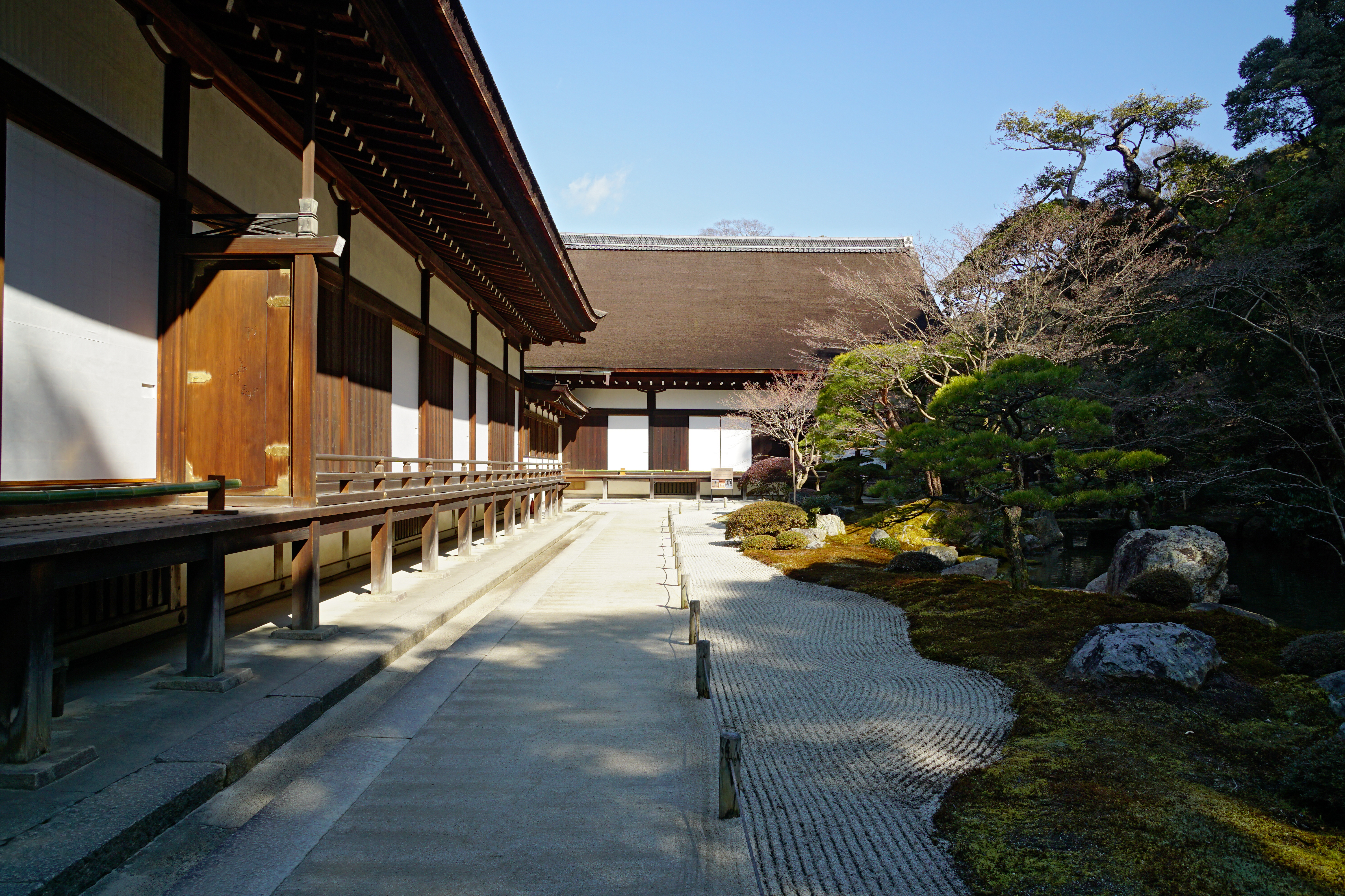 Chion-in Buddhist temple in Kyoto, Kyoto Prefecture, Japan.